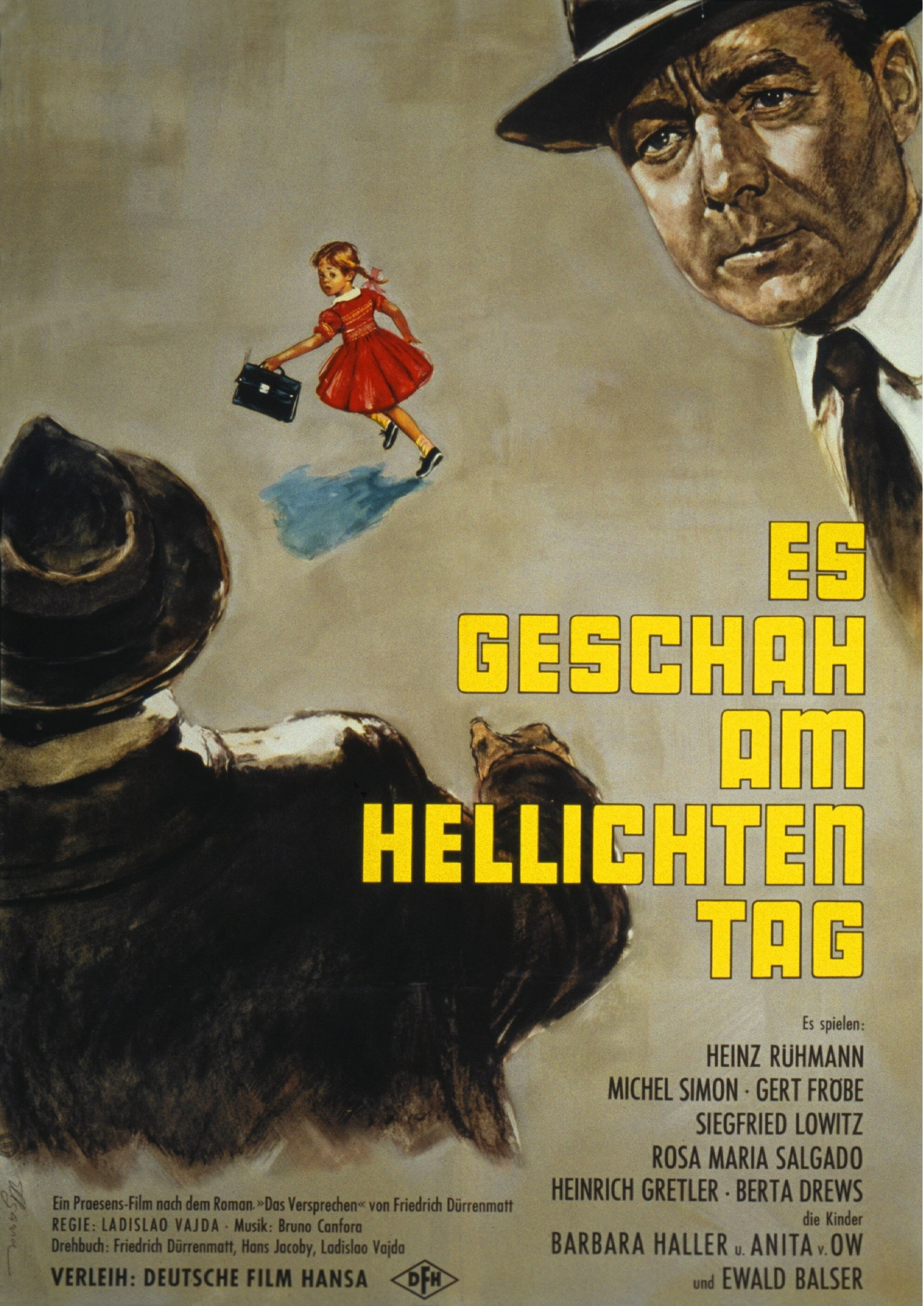 Movie poster for the film It Happened in Broad Daylight (1958).